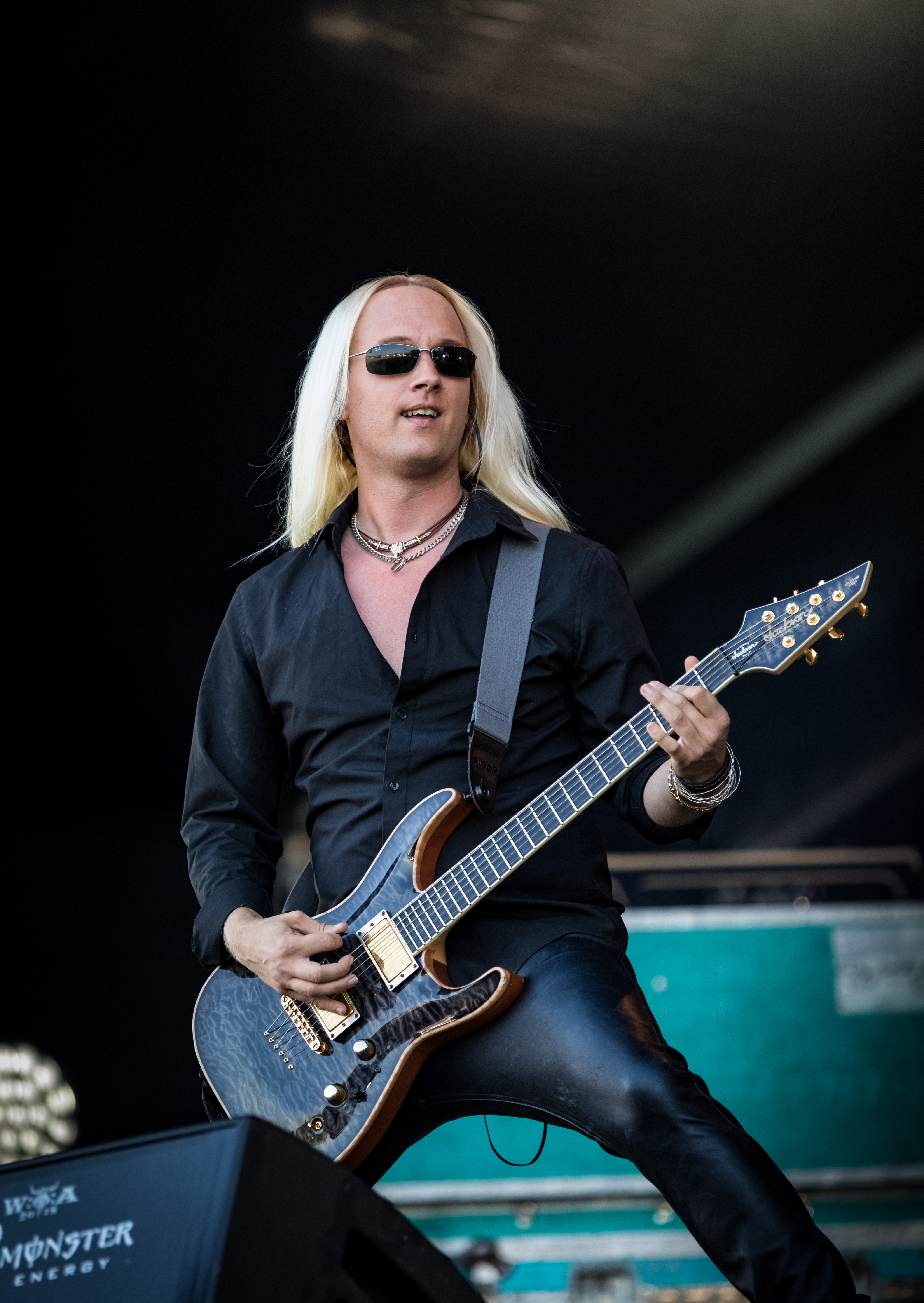 Amaranthe - Wacken Open Air 2018